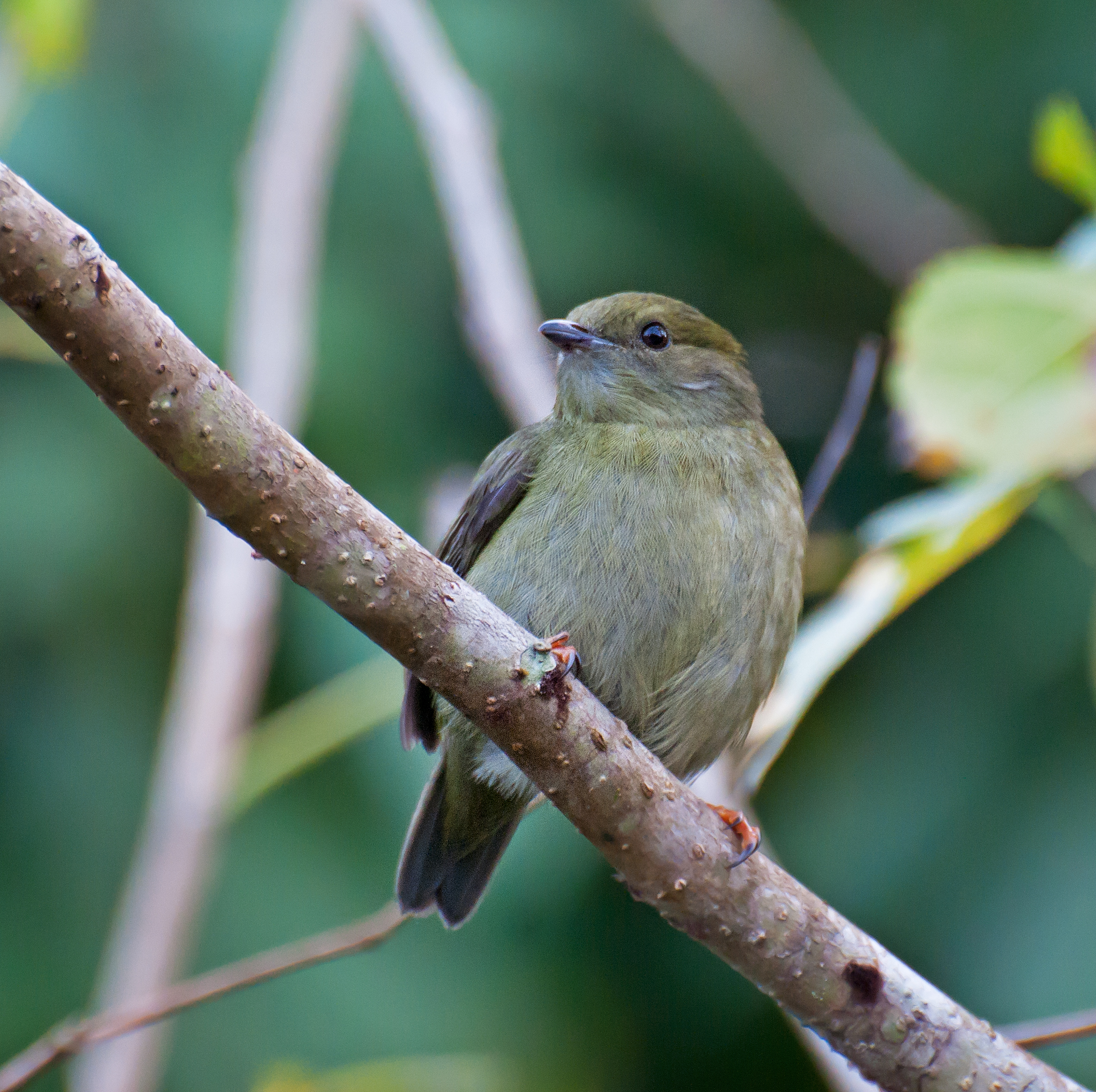 A female White-bearded Manakin in Registro, São Paulo, Brazil.